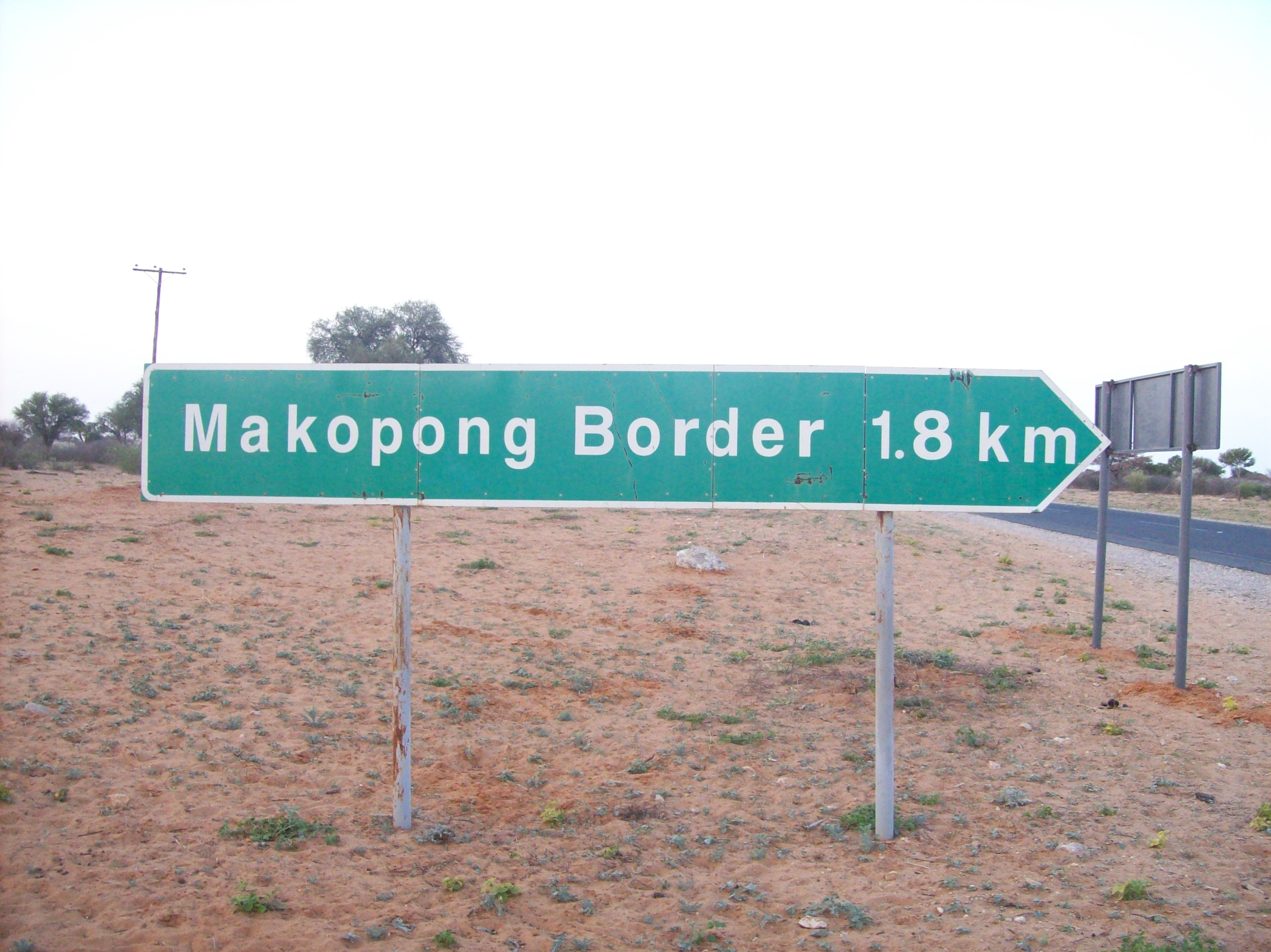 The Makopong Border Post sign. It is located along the main road to Tsabong just after the village